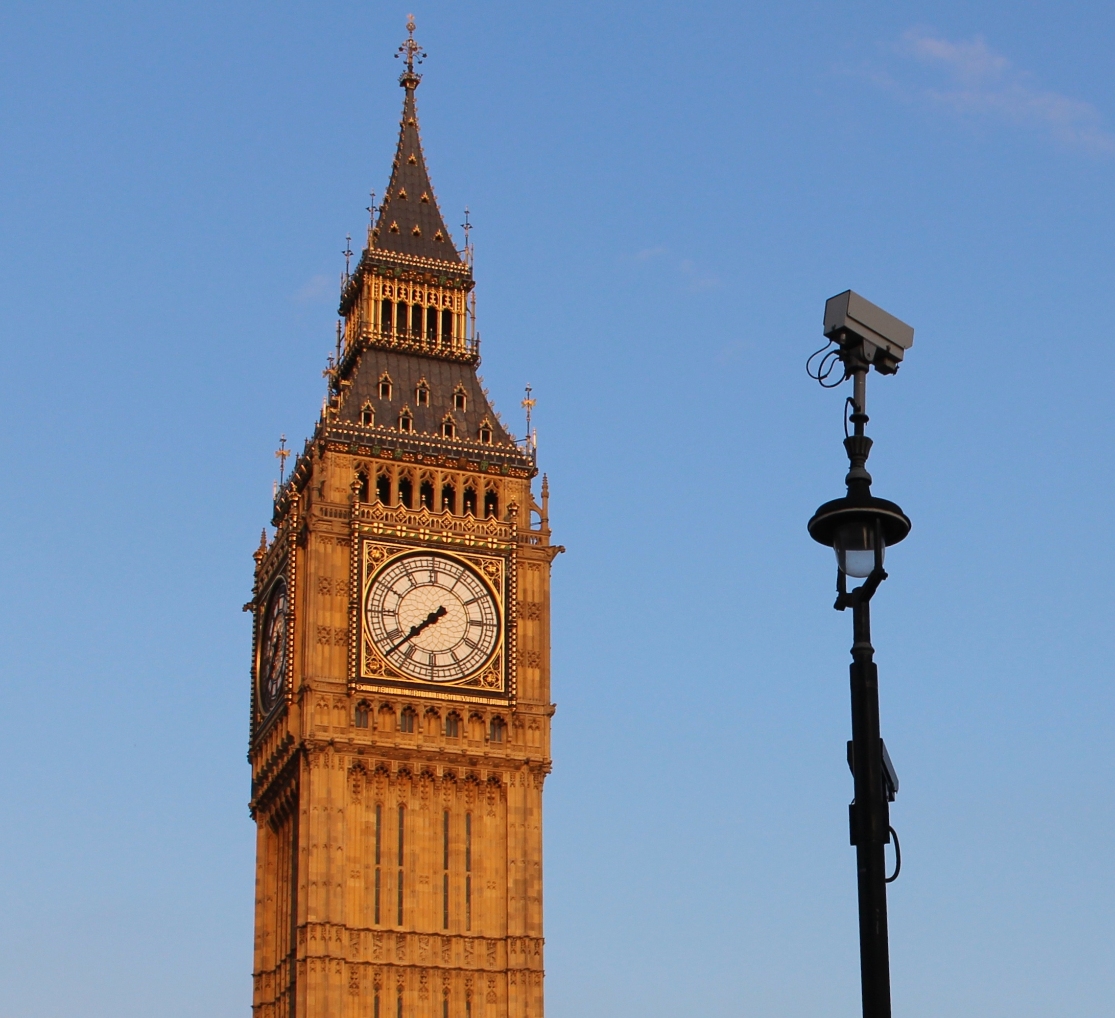 A CCTV camera next to the Palace of Westminster, City of Westminster, London.